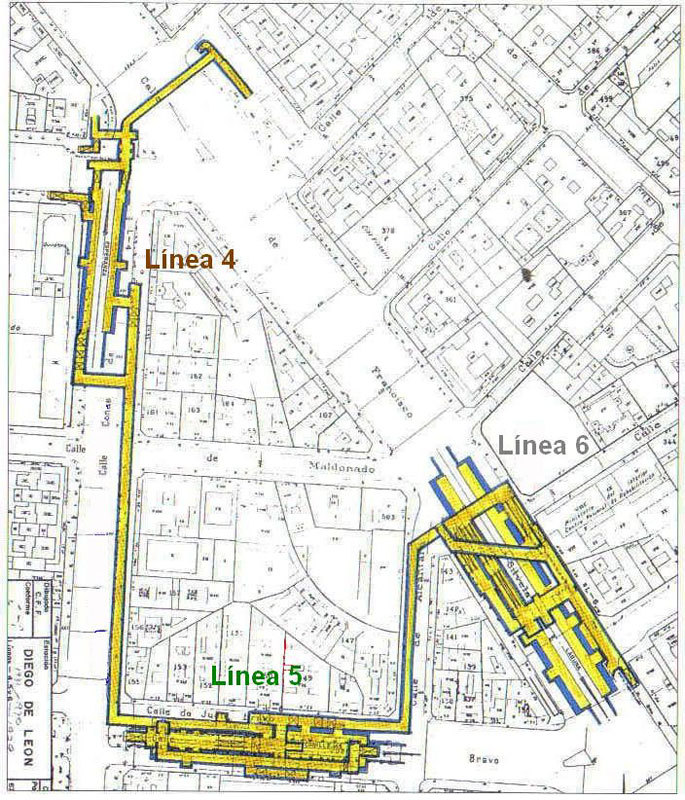 Metro de Madrid - Diego de Leon station scheme